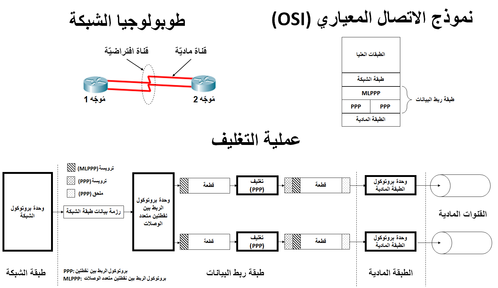 Multilink point-to-point protocol (MLPPP), top and left: network topology, top and right: corresponding OSI model, bottom: encapsulation process.